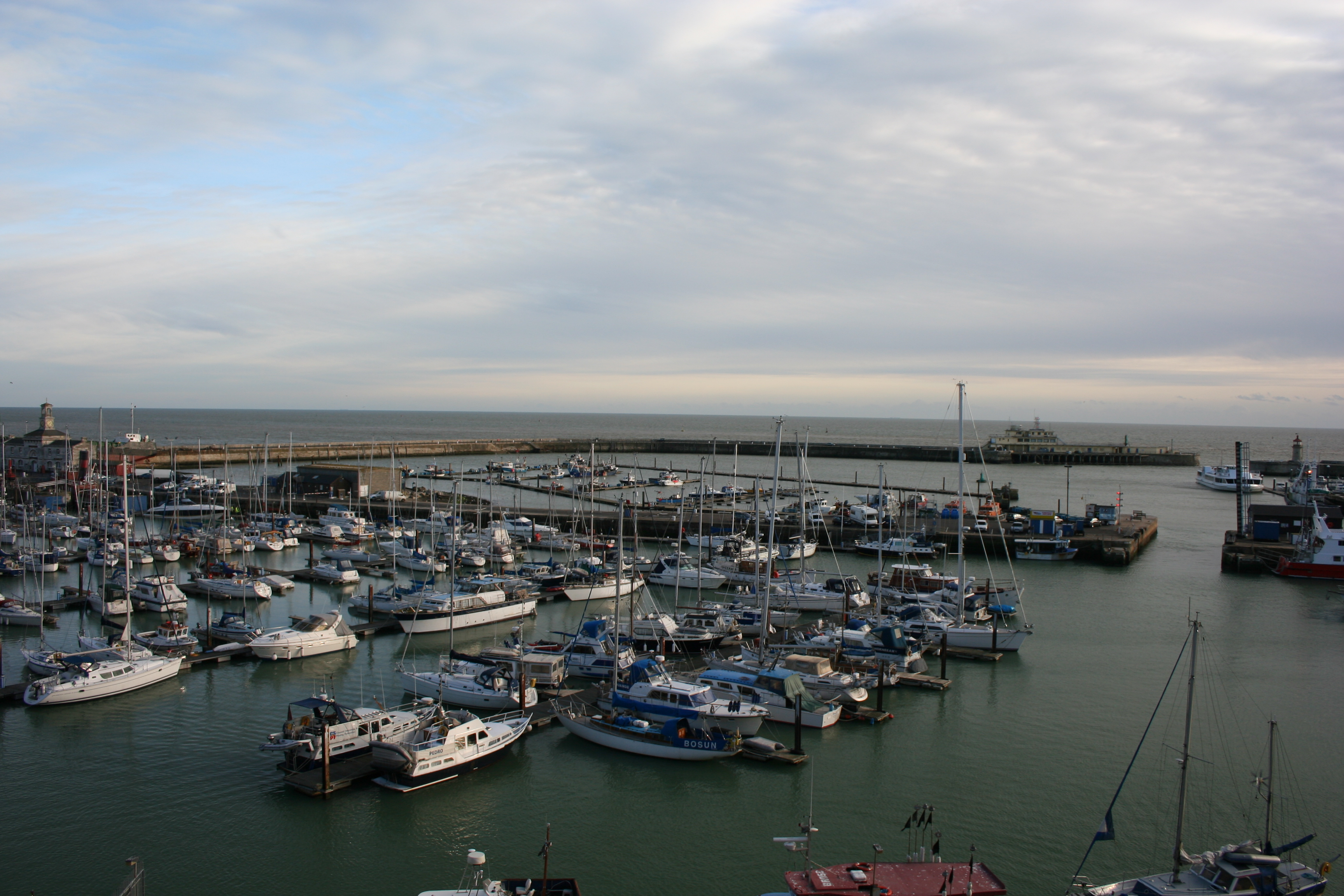 Ramsgate inner and outer marina, showing the bridge up (high tide).